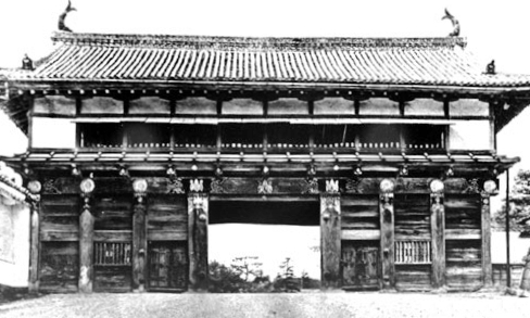 Sendai Castle Oote-mon (main gate) in 1938. It was destroyed by fire of Sendai air raid in 1945.